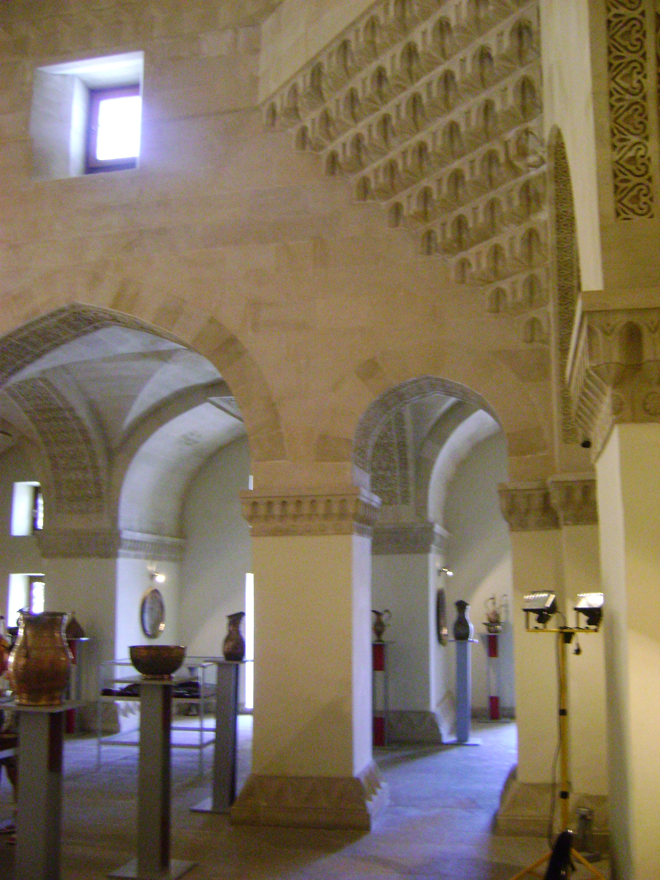 shirvanshakh_palace_old_city(baku)_azerbaijan_8-18centuries - saray (main palace) building - built by Ibrahim I(1382-1471)